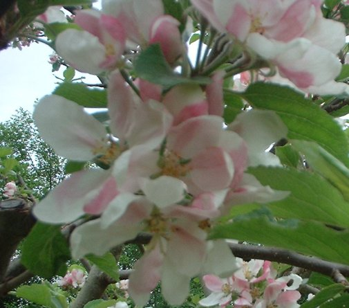 Kidds Orange Red apple bloom, British Columbia, Canada